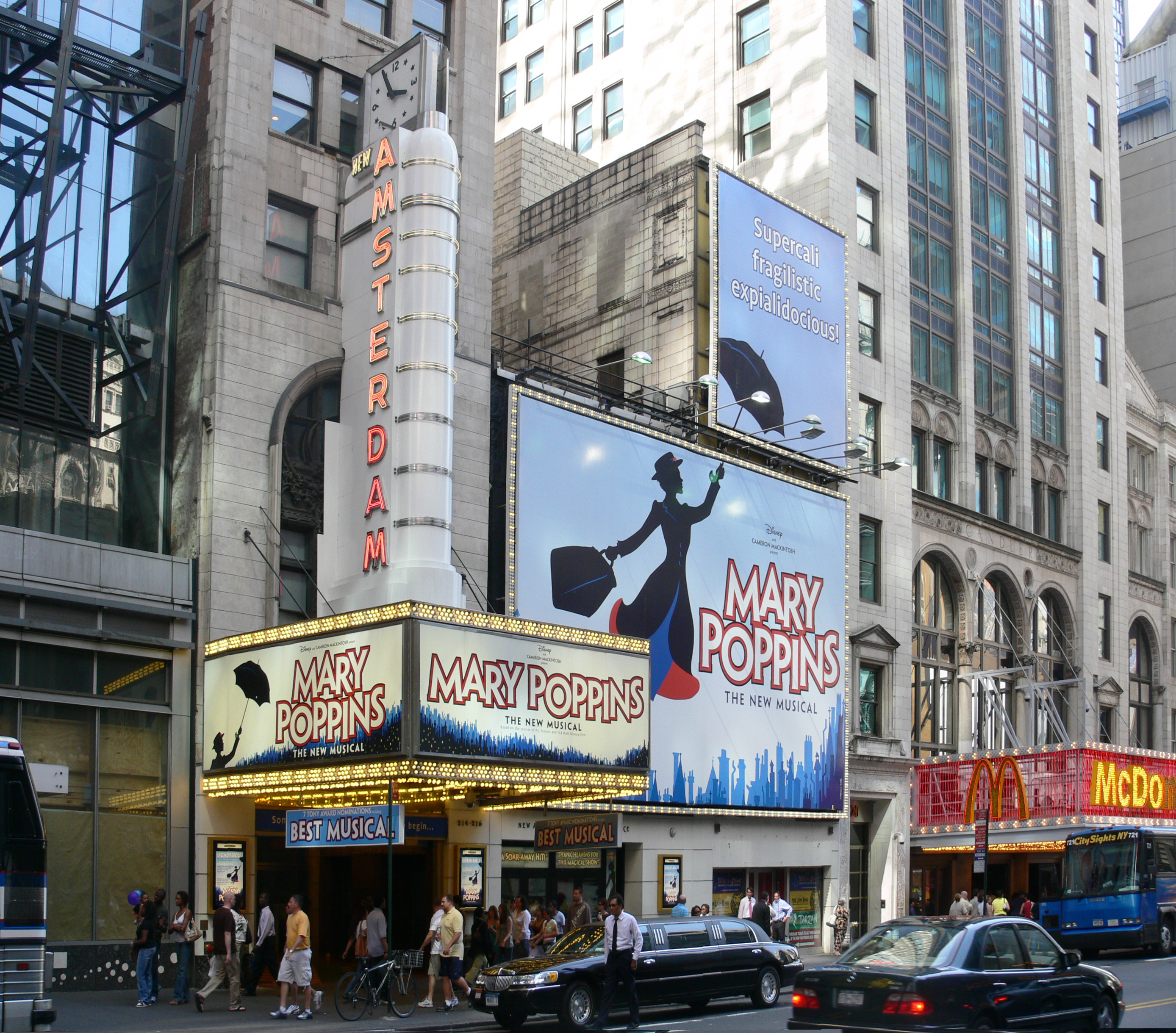 New Amsterdam Theatre showing the musical Mary Poppins 214 West 42nd Street, Manhattan, New York City